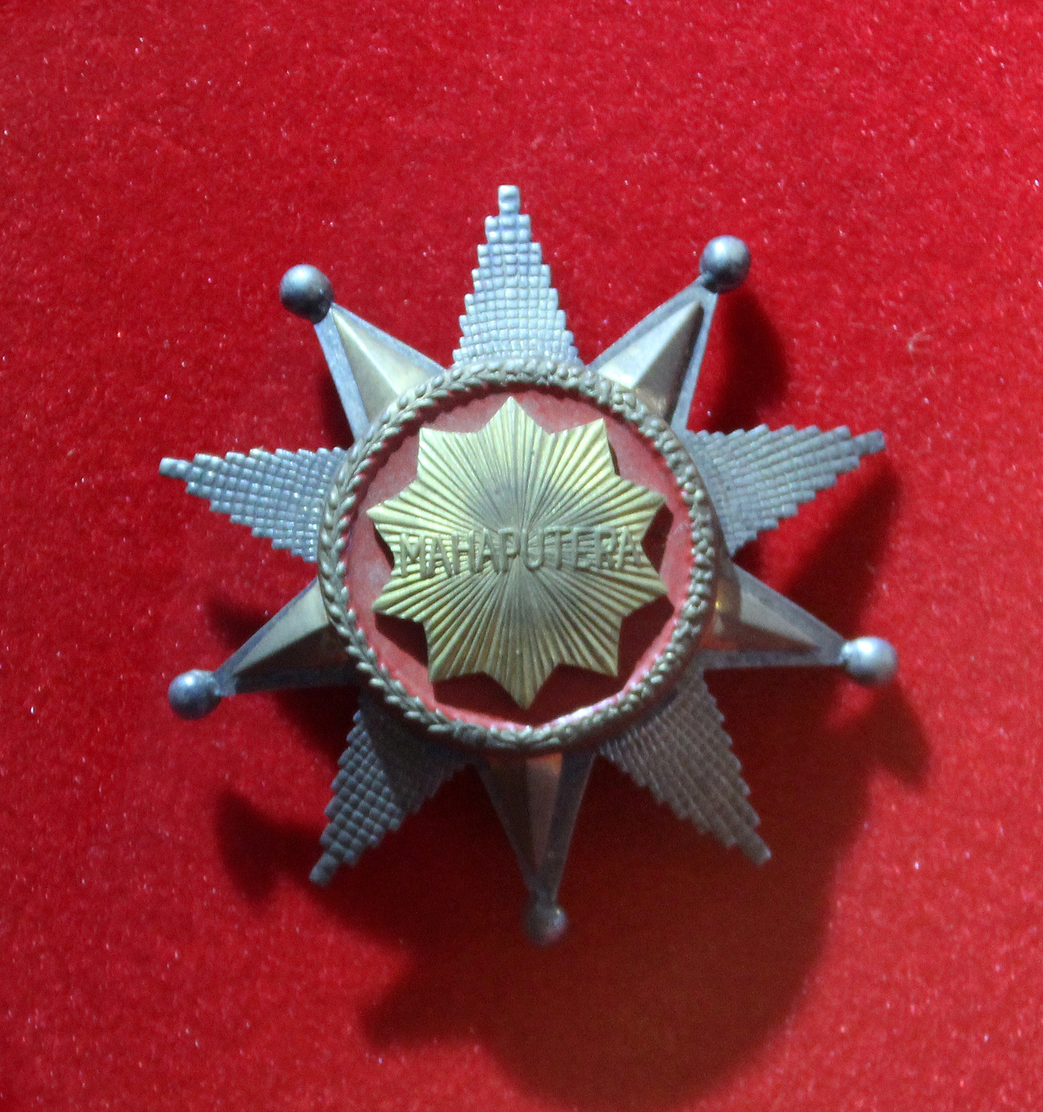 Bintang Mahaputera, one of awards and decorations of the Republic of Indonesia. It is awarded to a person who has given extraordinary service to the motherland in certain areas outside the military. It is the second highest decoration awarded by the Government of The Republic of Indonesia. Mpu Tantular Museum, Sidoarjo, East Java.